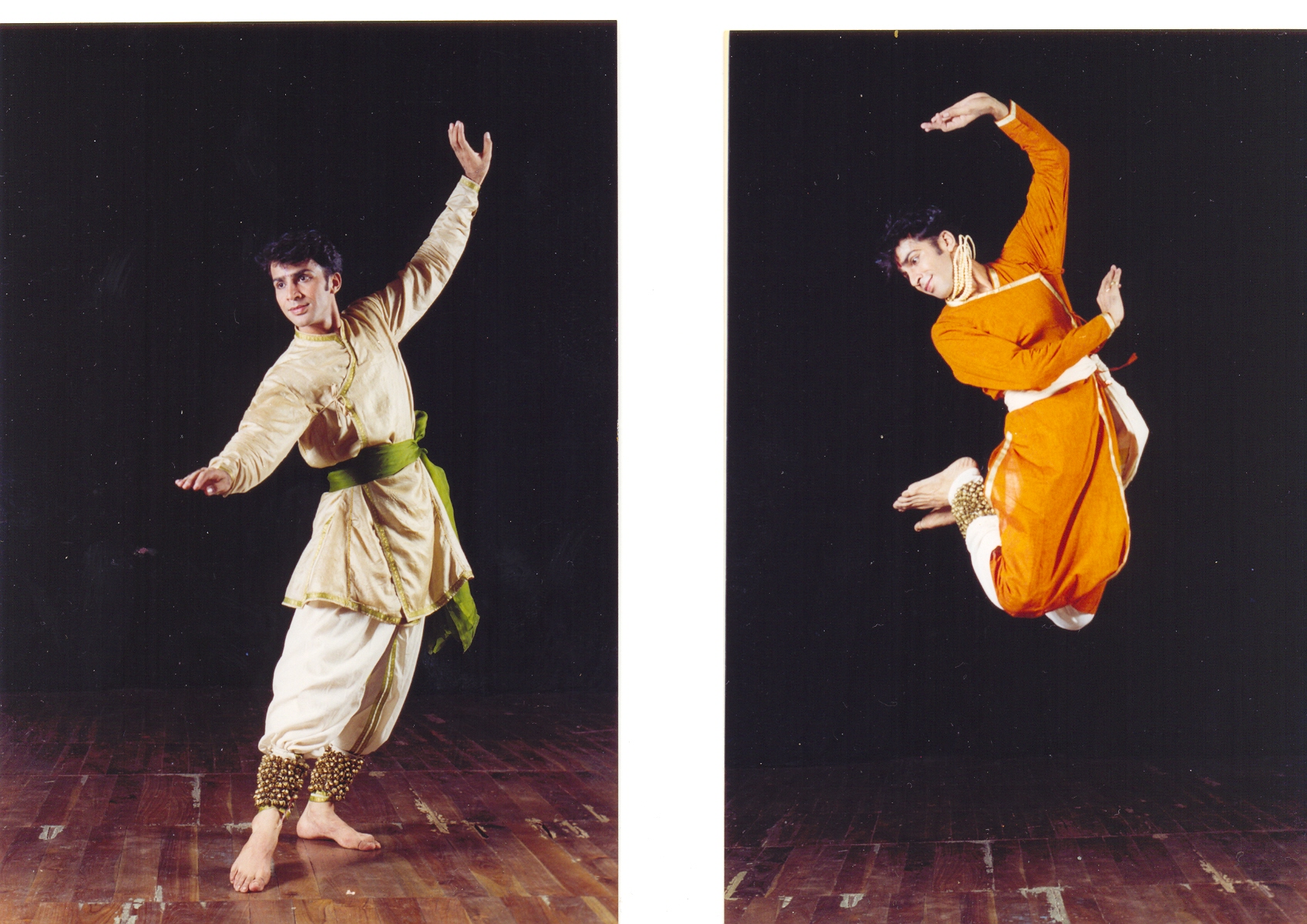 Kathak